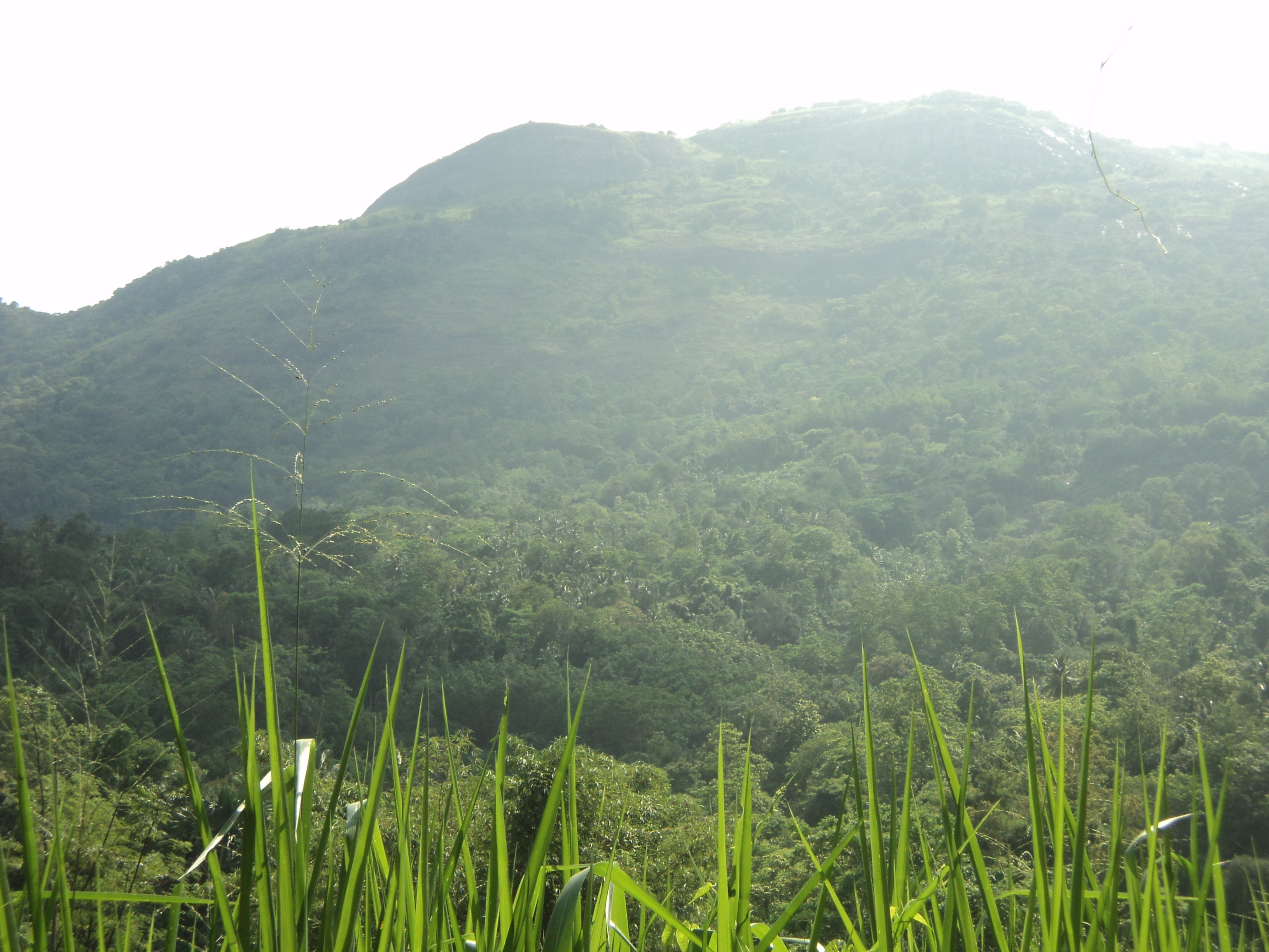 a picture of alagalla mountain